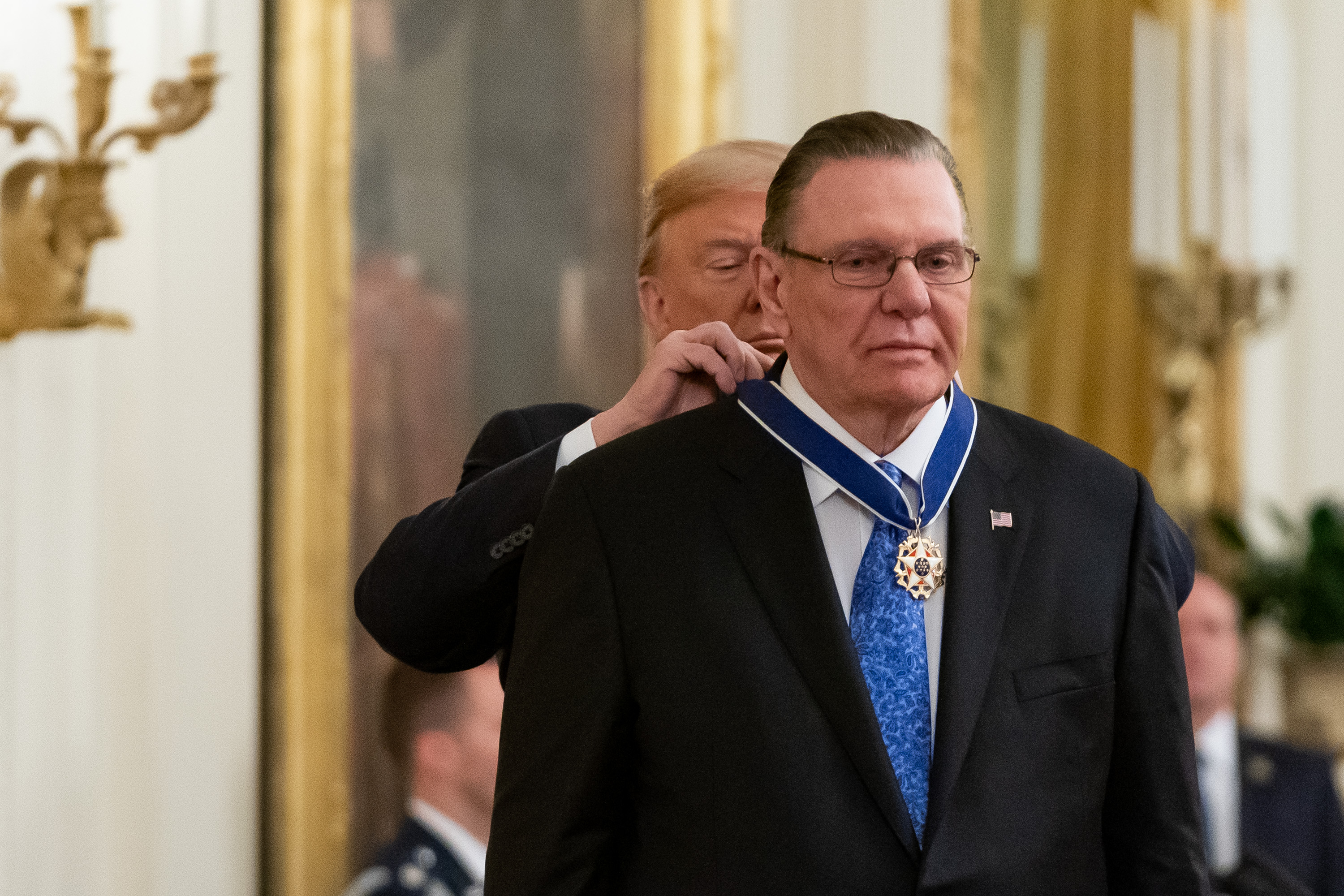 President Donald J. Trump presents the Presidential Medal of Freedom, the nation’s highest civilian honor, to retired four-star U.S. Army General Jack Keane, Tuesday, March 10, 2020, in the East Room of the White House. (Official White House Photo by Andrea Hanks)